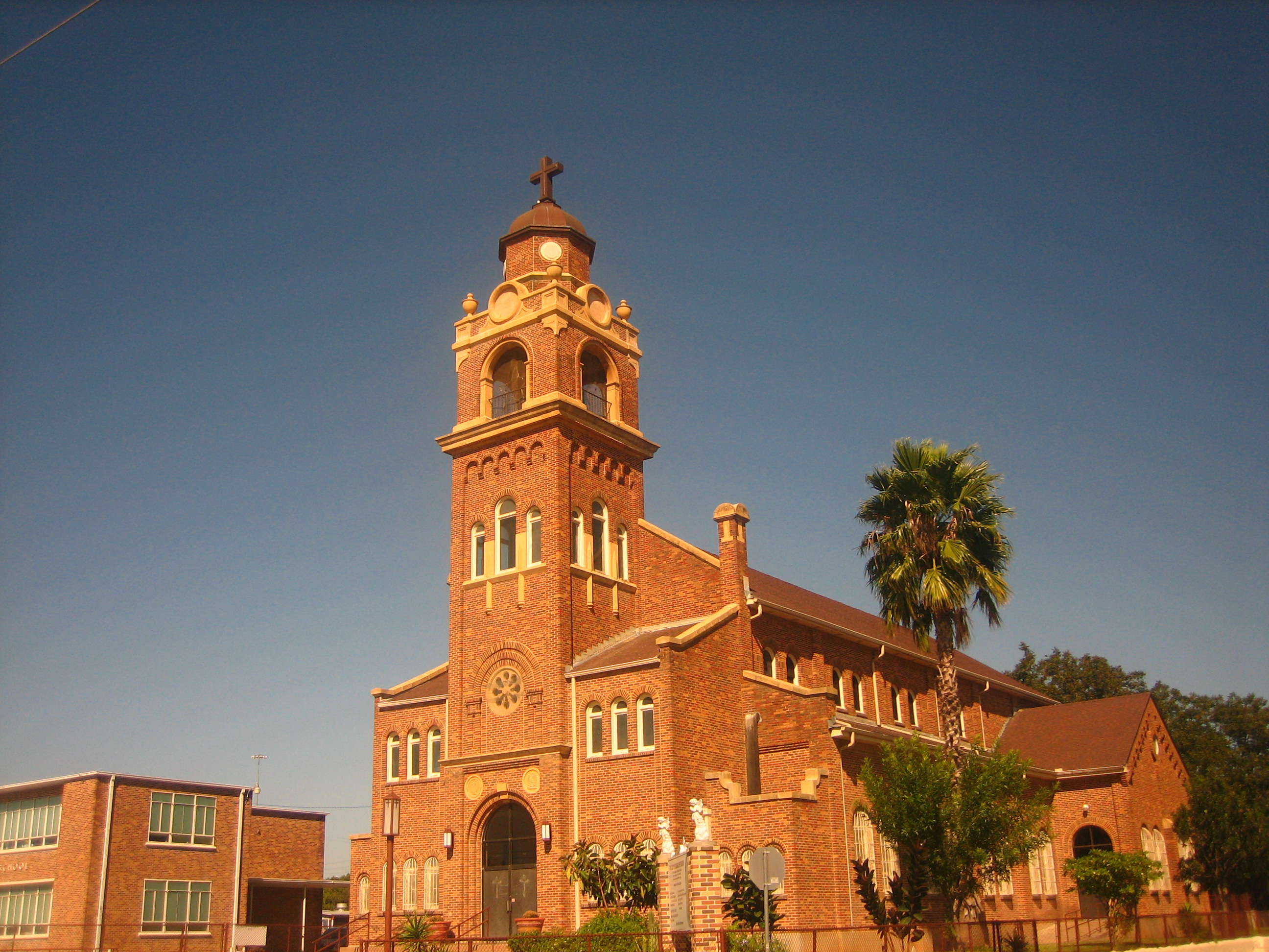 I took photo on Oct. 29, 2008.Billy Hathorn (talk) 02:58, 30 October 2008 (UTC)